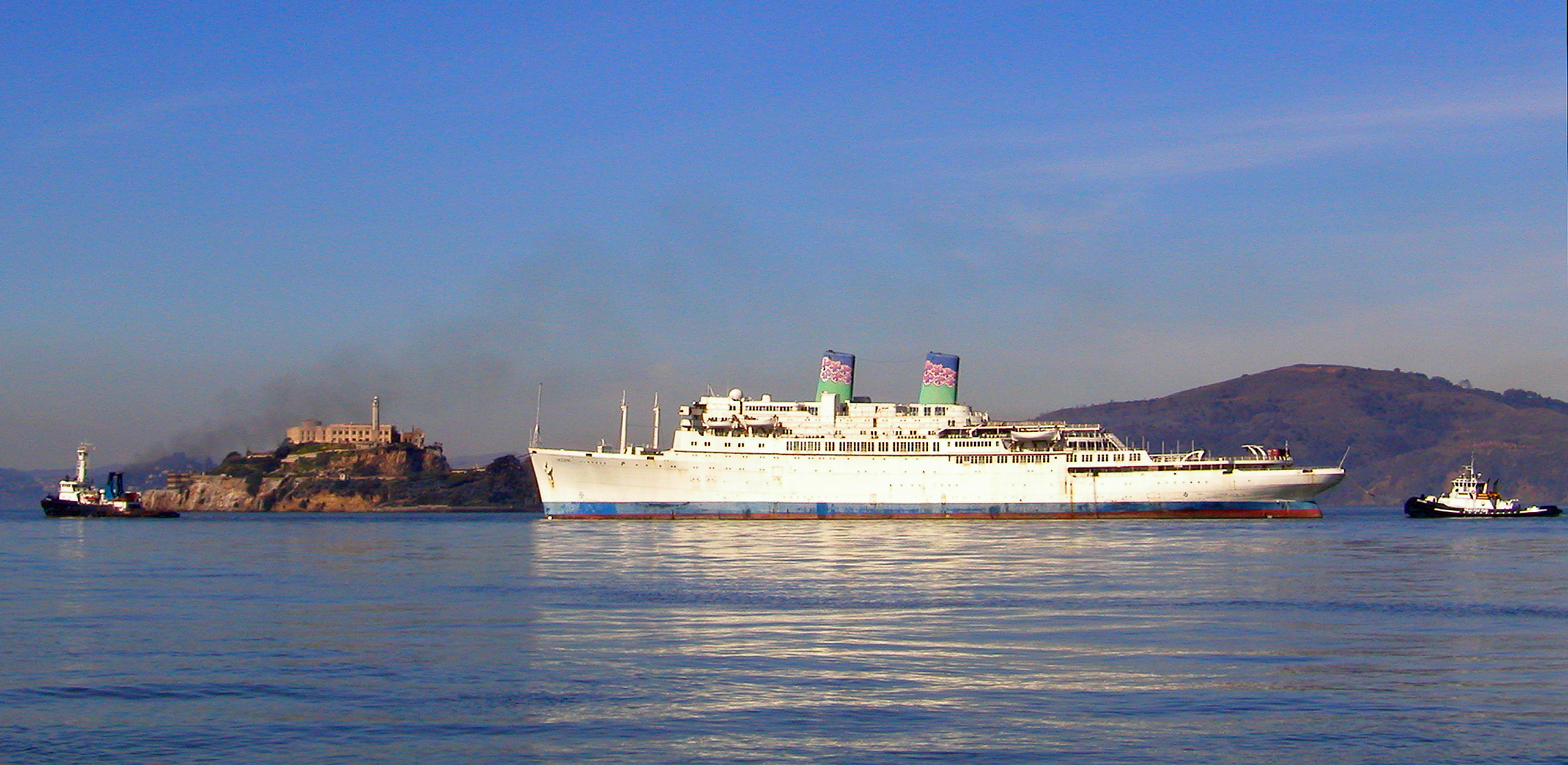 Oceanic (originally, the SS Independence) being towed out of San Francisco Bay, Alcatraz and Angel Islands in the background